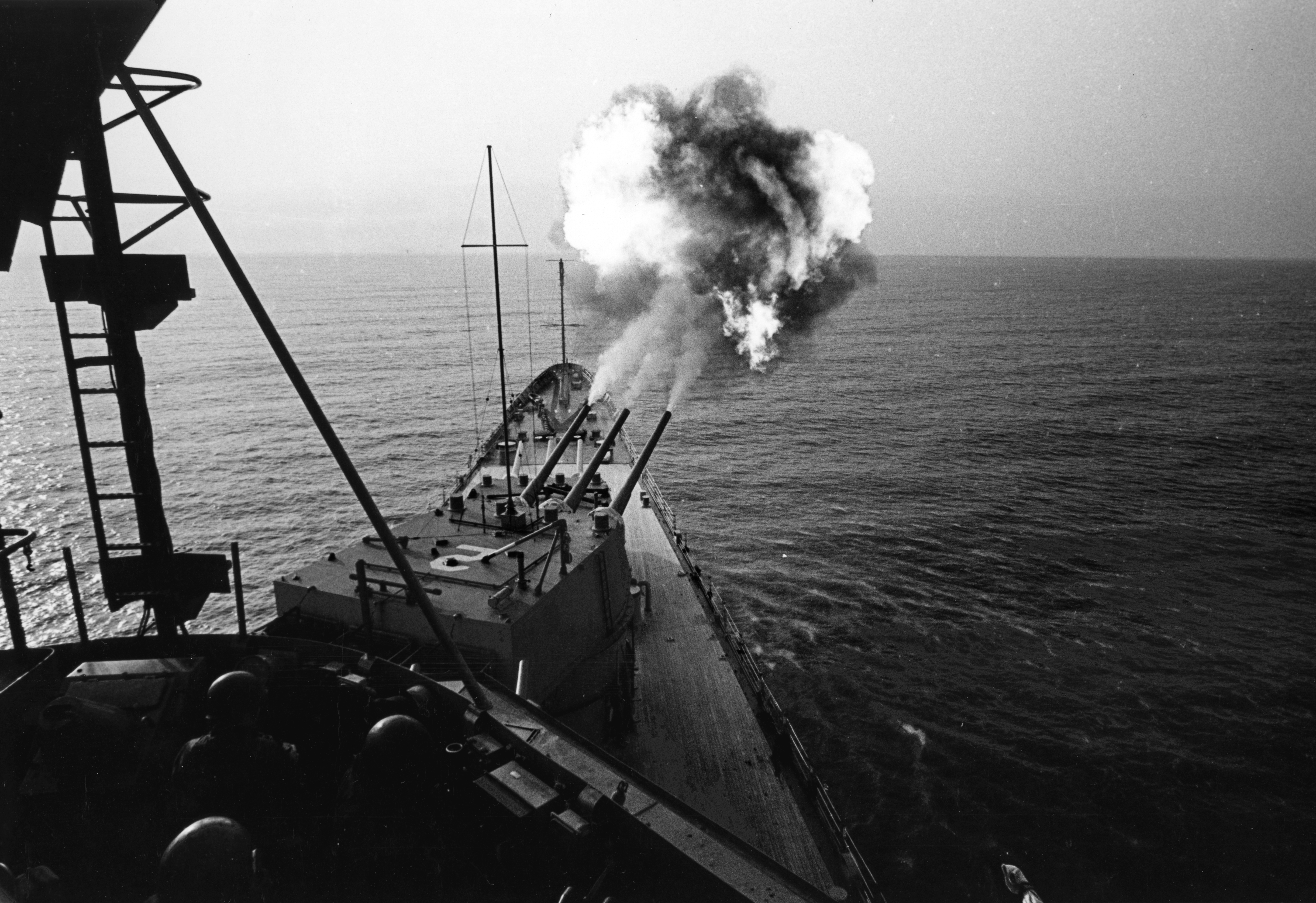 The U.S. Navy guided missle cruiser USS Canberra (CAG-2) fires 203mm guns at North Vietnamese targets during operation Sea Dragon, 20 May 1967.